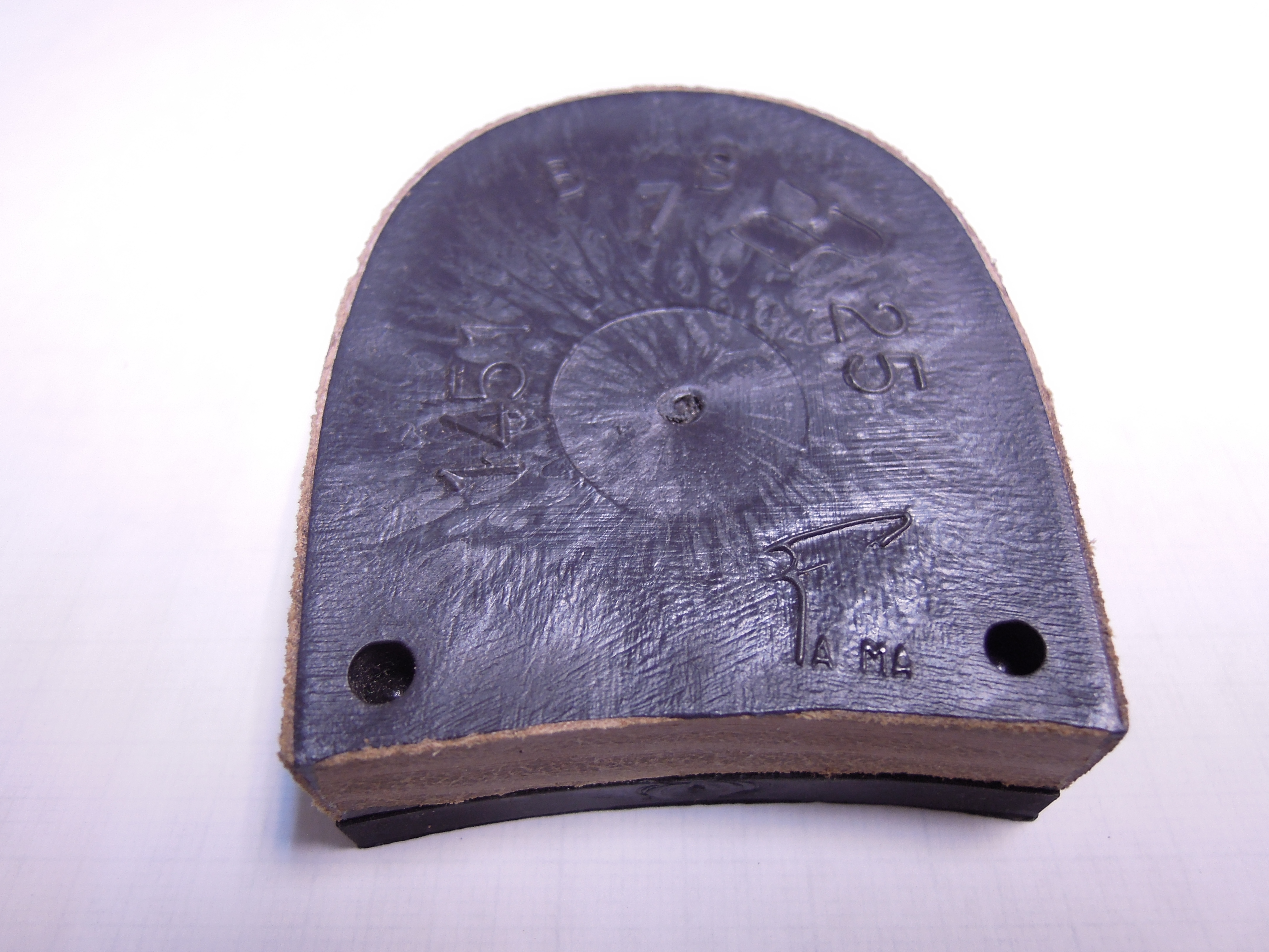 Low heel for female shoes.